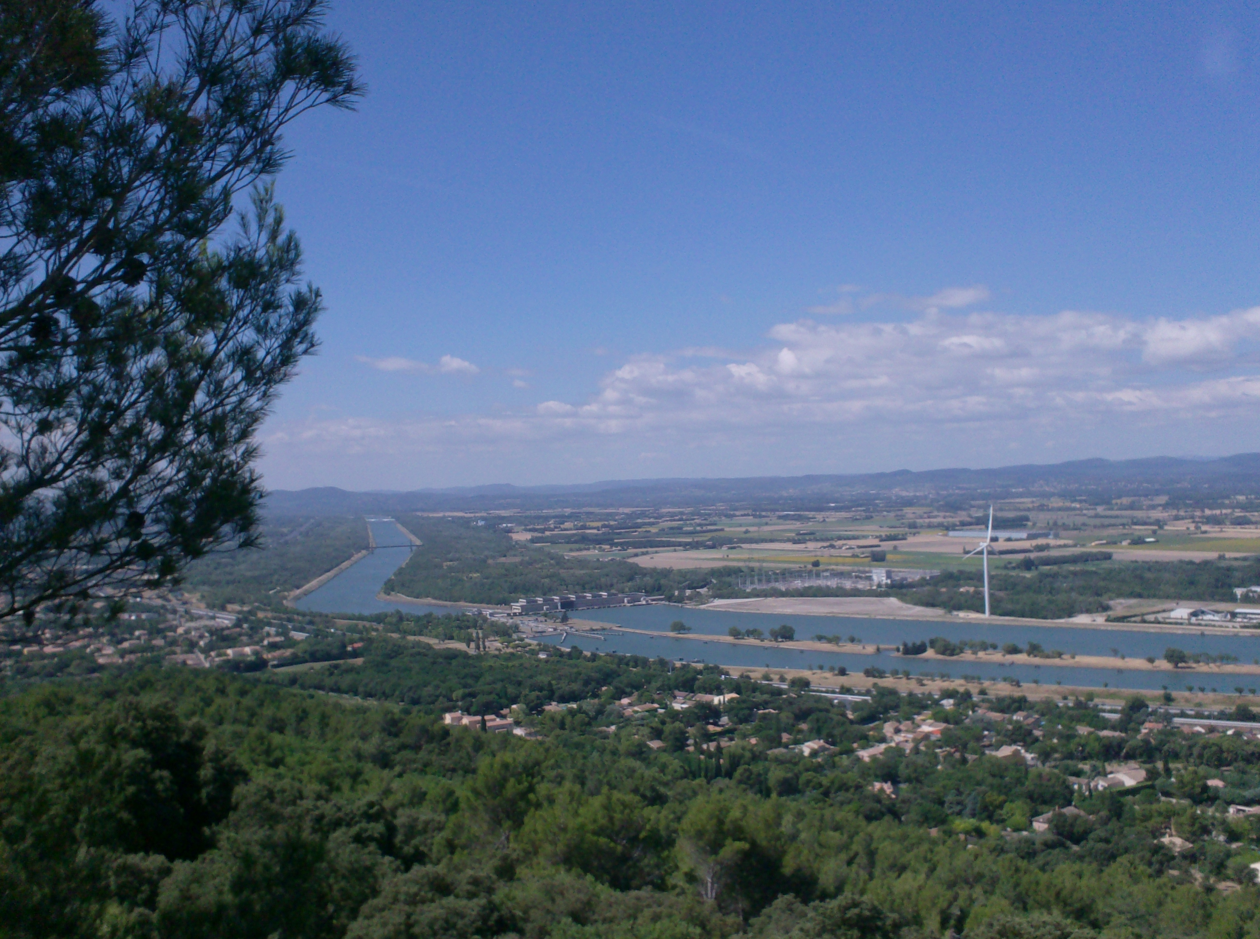 Bollène lock, Donzère-Mondragon canal